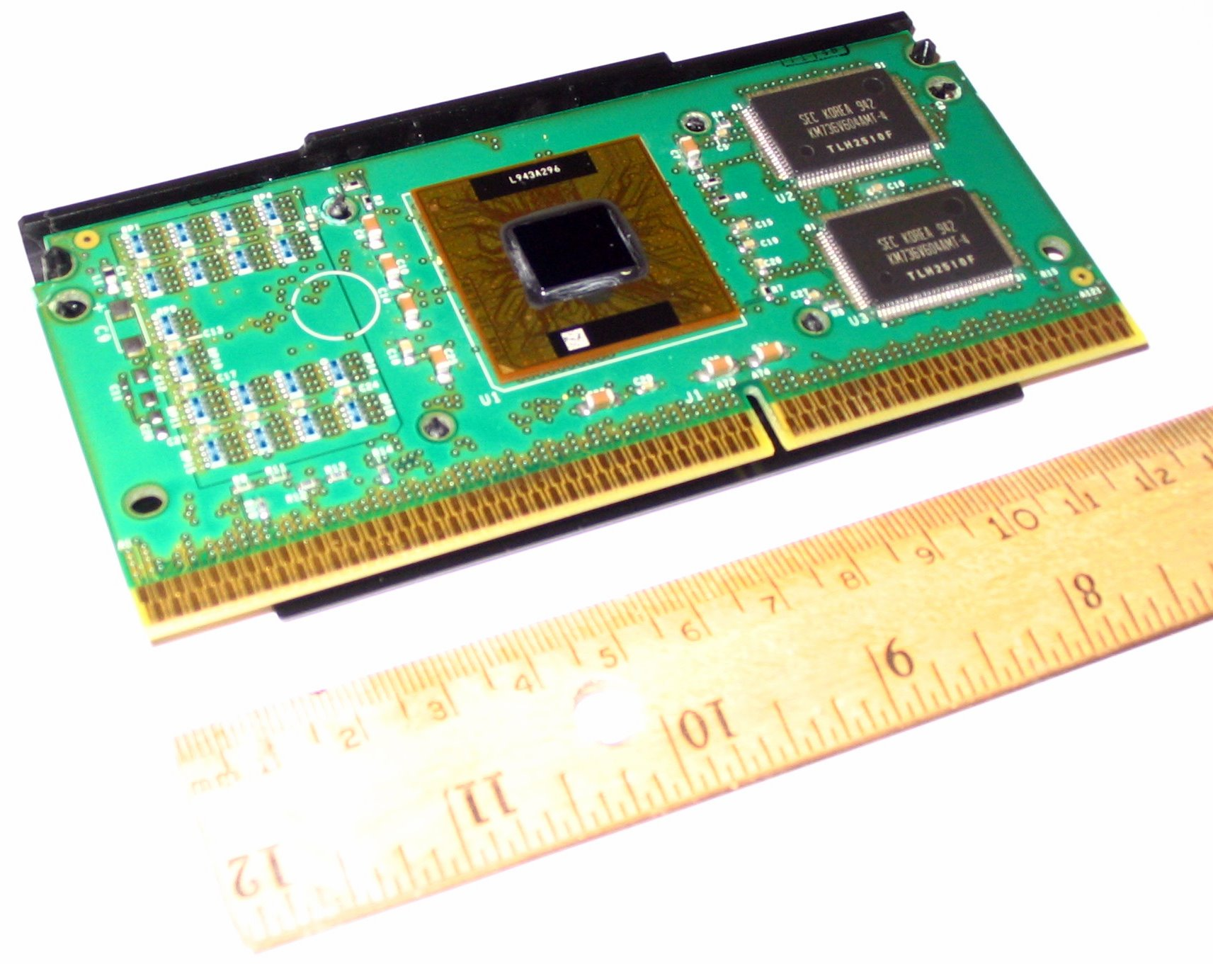 Intel Pentium III Microprocessor - SECC2 Cart w/ Heatsink Removed